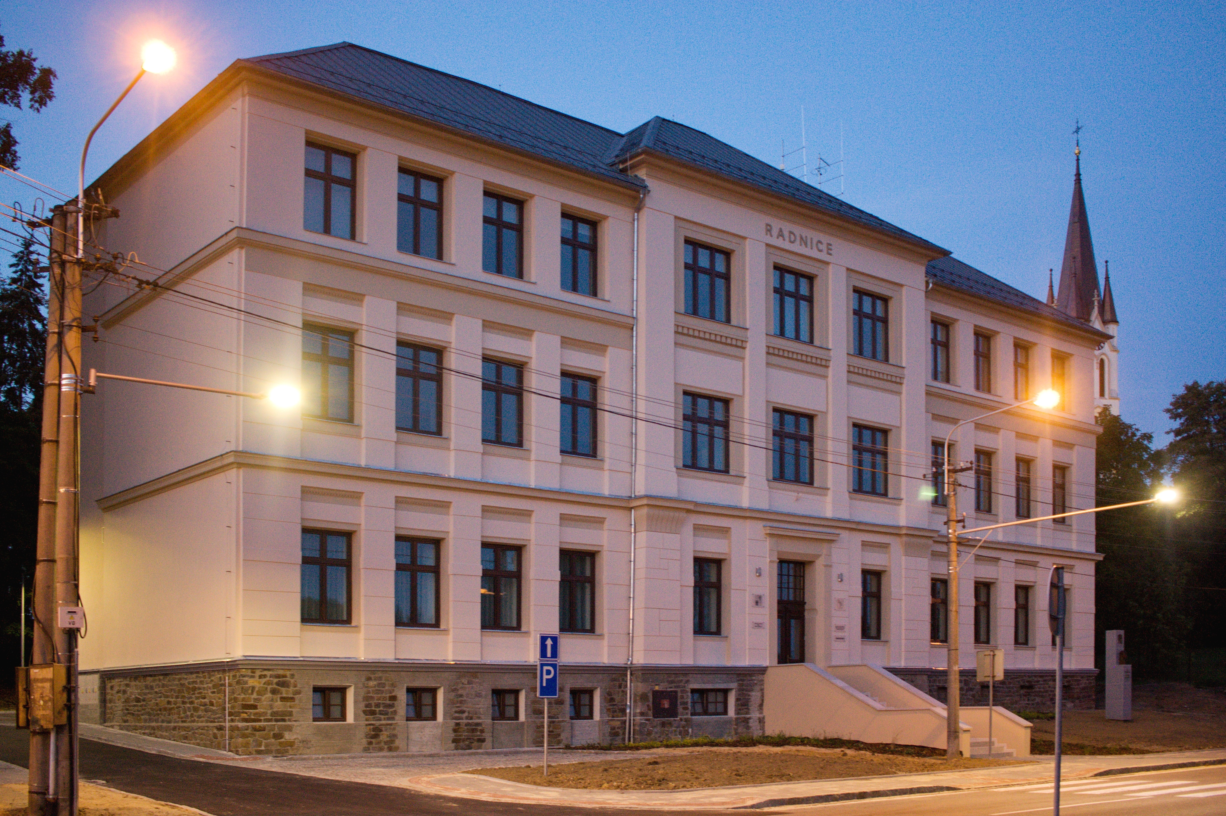 Municipality Polanka nad Odrou (Ostrava), Ostrava-City District, Moravian-Silesian Region, Czechia